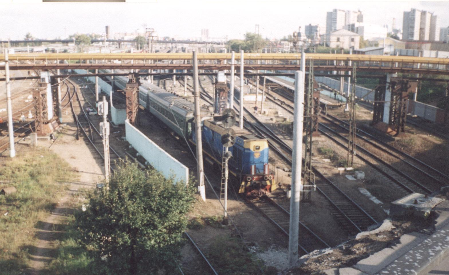 Stary Krestovski Puteprovod (Old Krestovsky Overpass) in Moscow